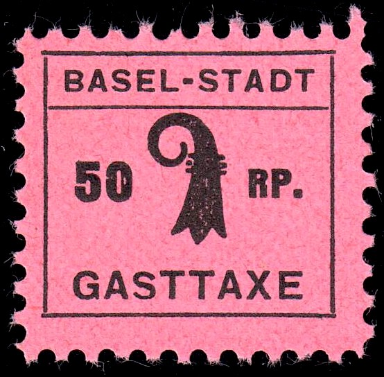 Switzerland Basel 1942 Tourism revenue 50Rp - 3. Perforated 10.75-11. Catalogue: Gainon 3, Wallace 3a